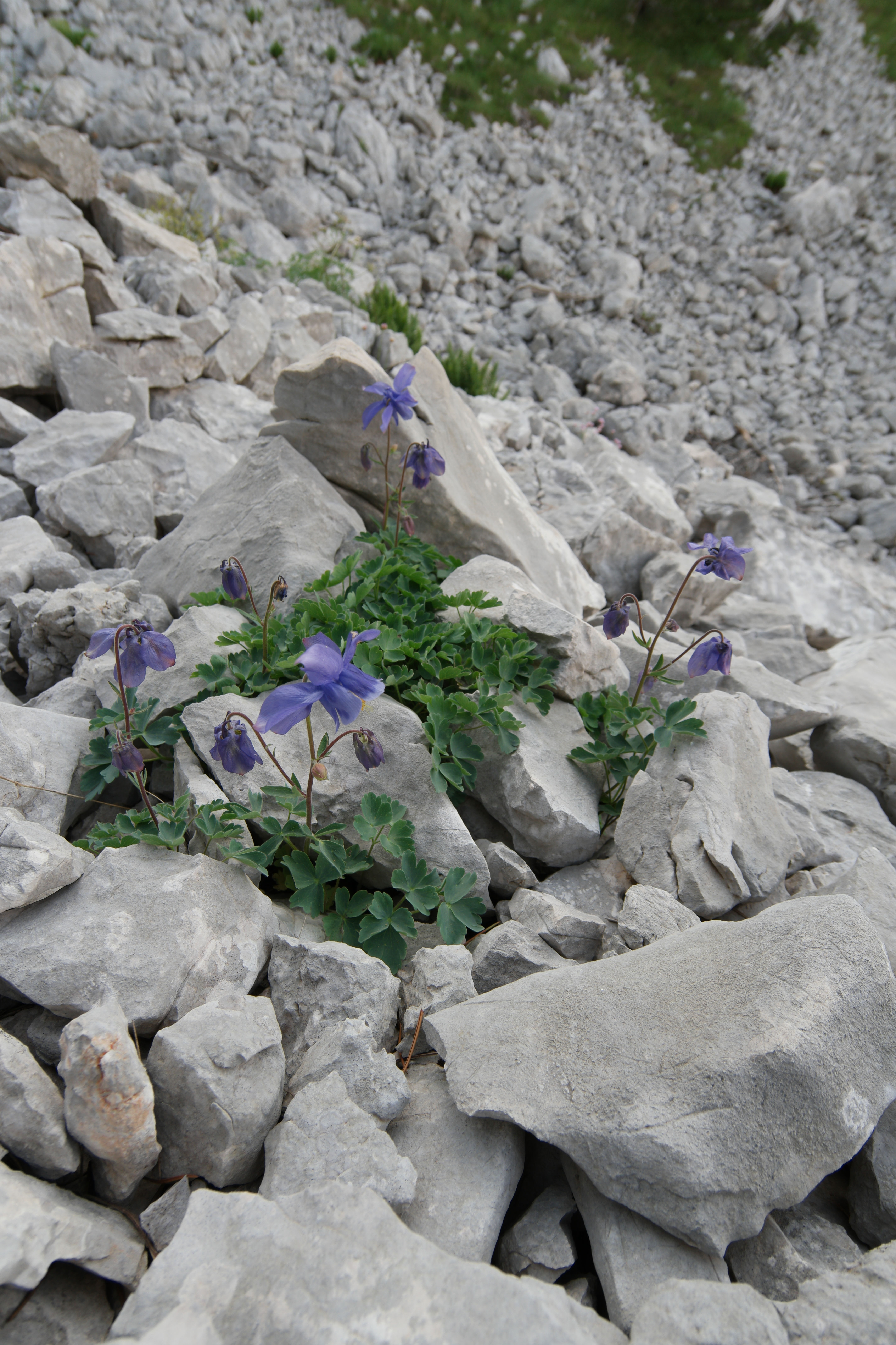 Aquilegia dinarica block field Jastrebica leg P.Cikovac